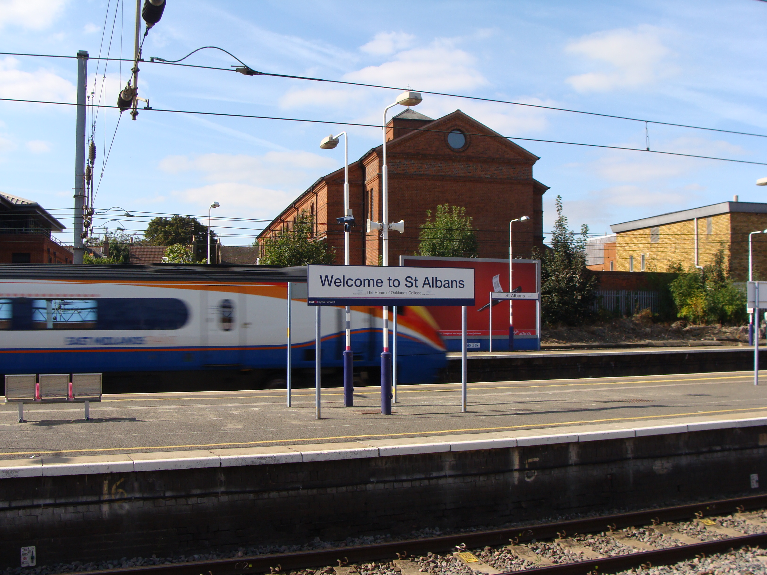 St Albans City railway station